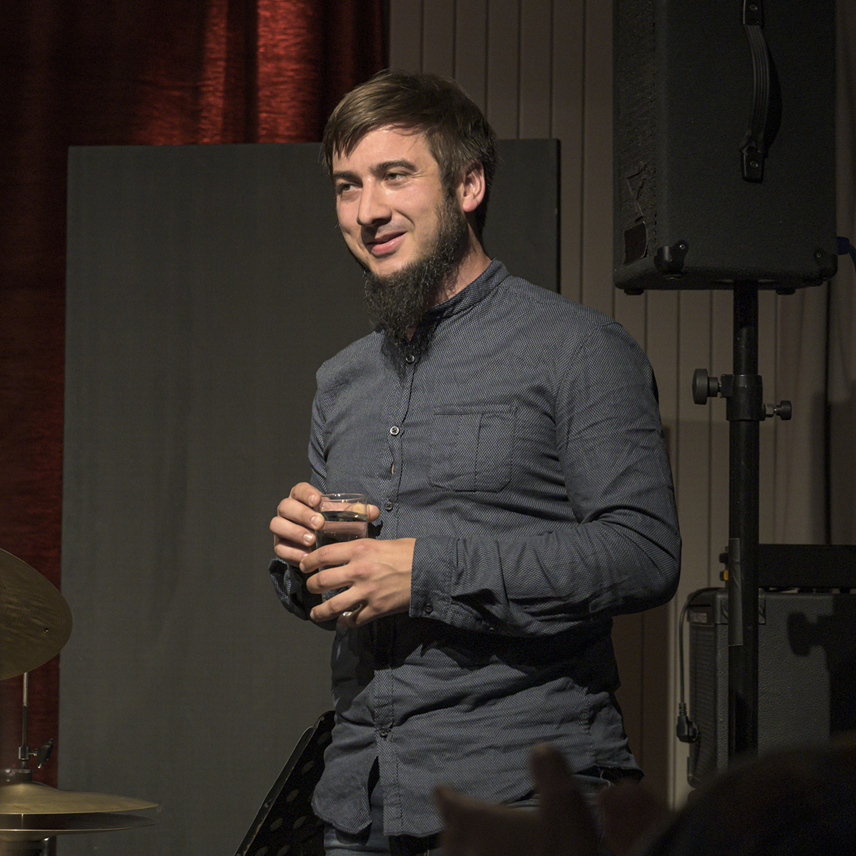 German jazz drummer Nathan Ott at Loft, Cologne (D) - together with Dave Liebman, sax